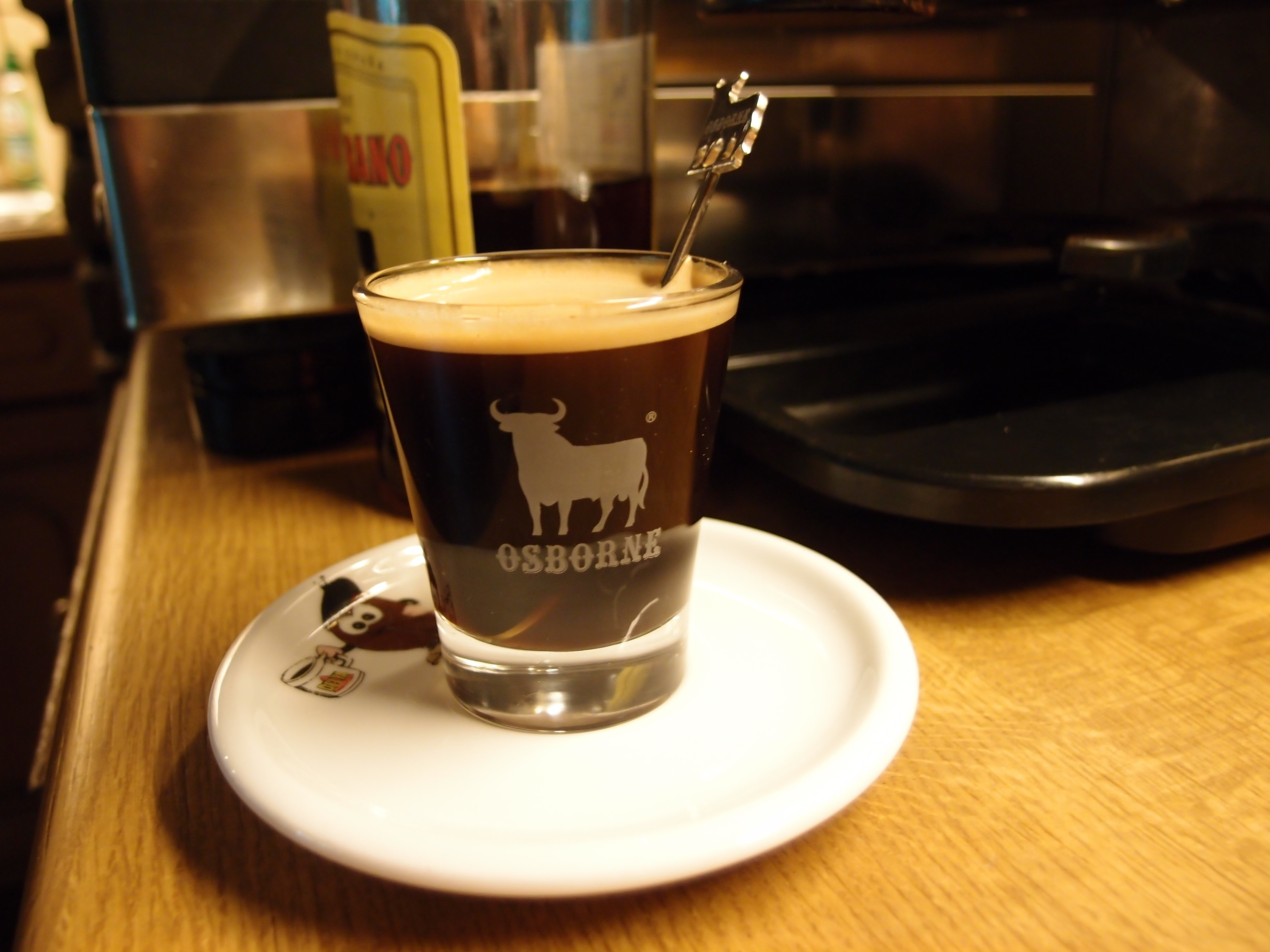 Carajillo mit Brandy in einem traditionellen Glas Datum: 13.08.2011 Urheber: M. Pfeiffer alias Benutzer:Gordito1869 Quelle: privates Fotoarchiv des Urhebers